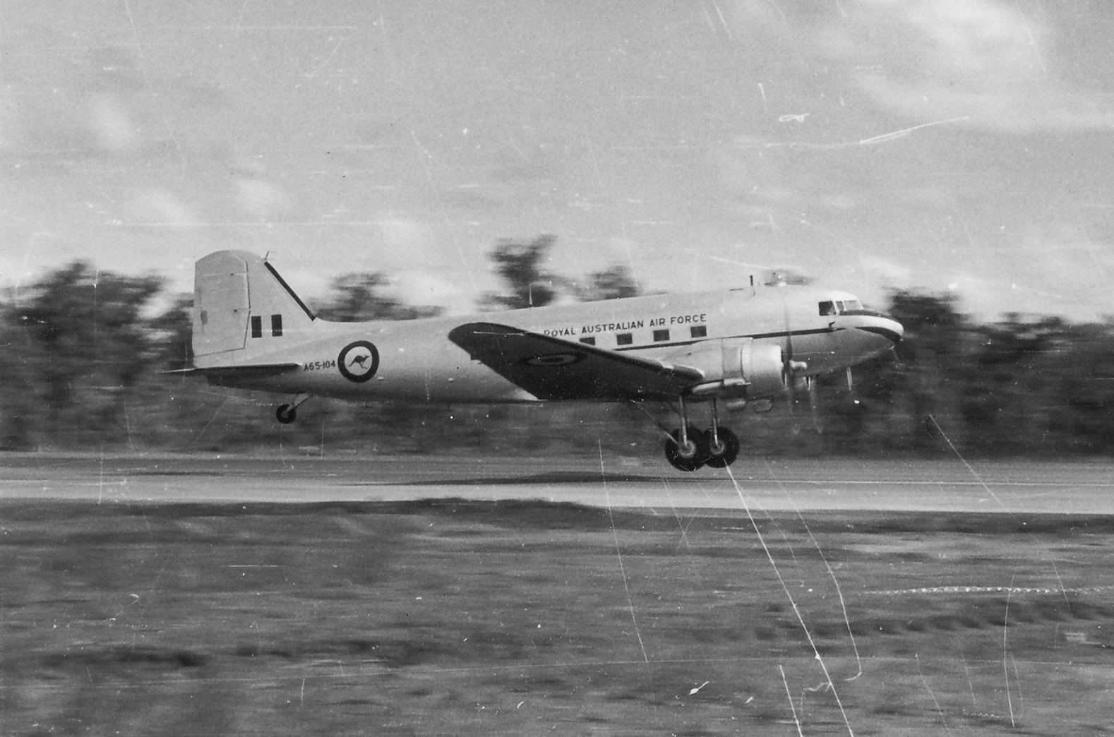 Dakota A65-104 was used to open the new airstrip at RAAF Darwin and to give 5ACS personnel a flight from the strip they had built.